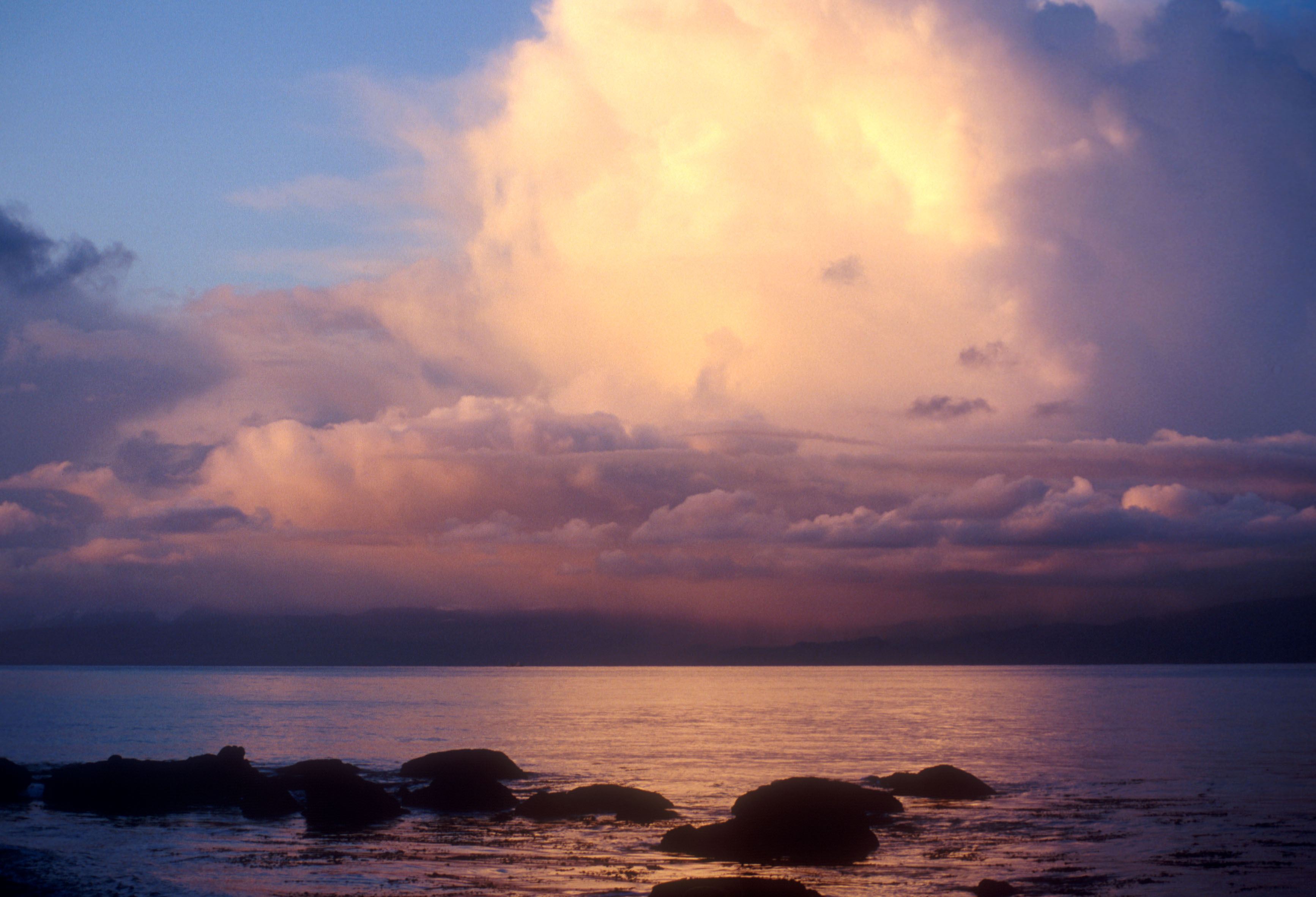 Sunset over the Strait of San Juan de Fuca, as seen from the town of Sekiu, Washington, USA.